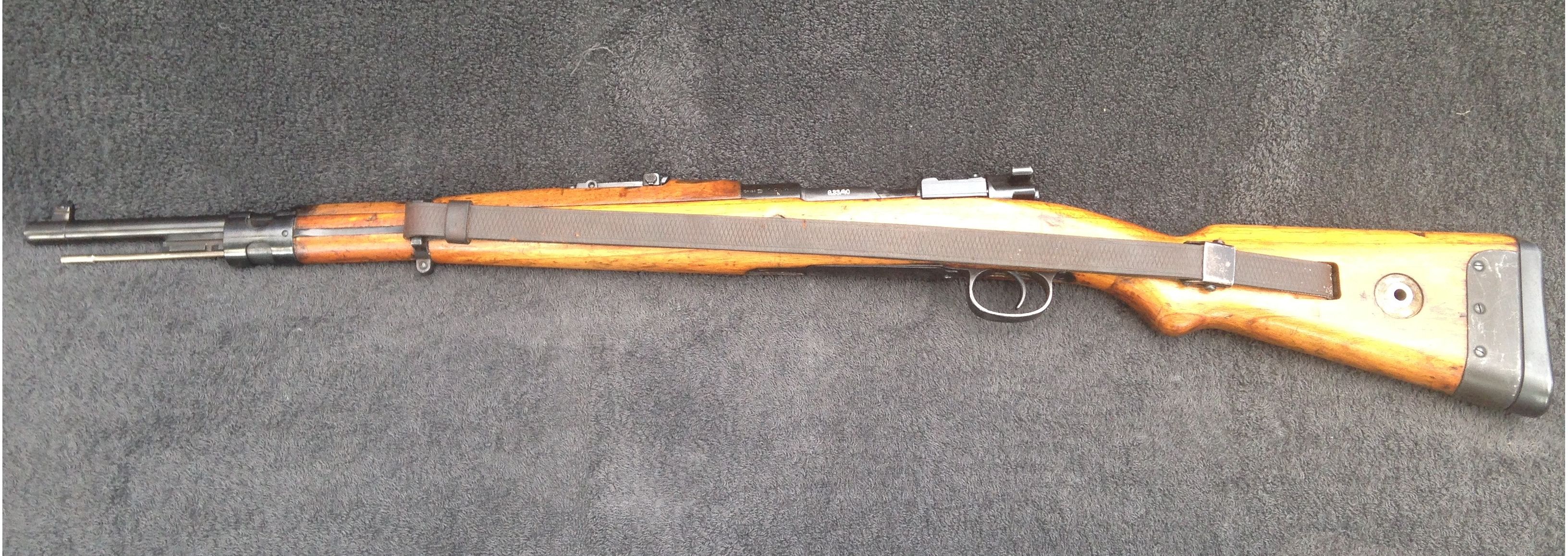 G33/40 total, left side